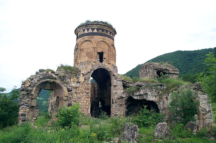 Hnevank Monastery (before reconstruction), Lori Marz, Northern Armenia.